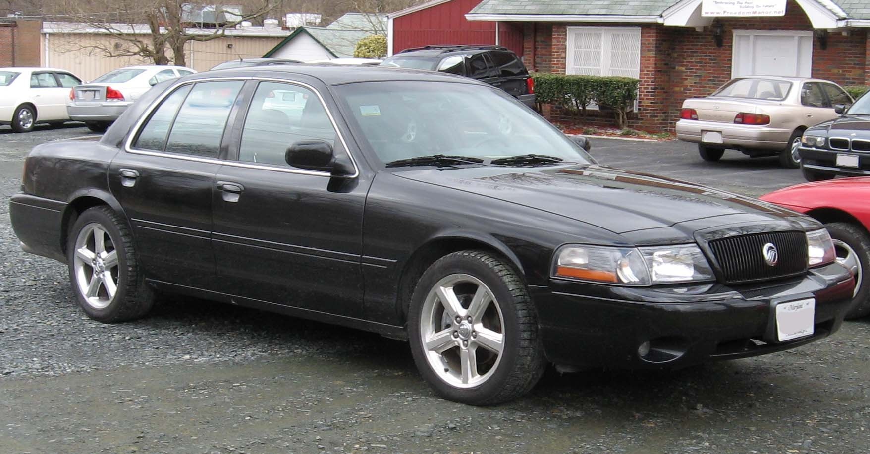 2003-2004 Mercury Marauder photographed in USA.